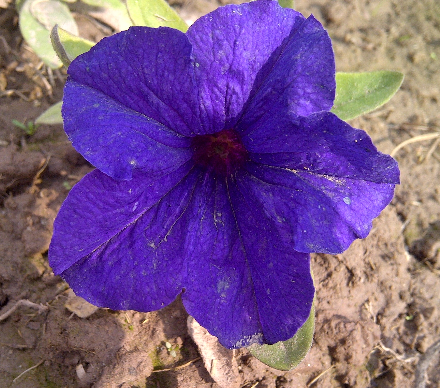 Petunia at Hyatabad Medical Complex Peshawar